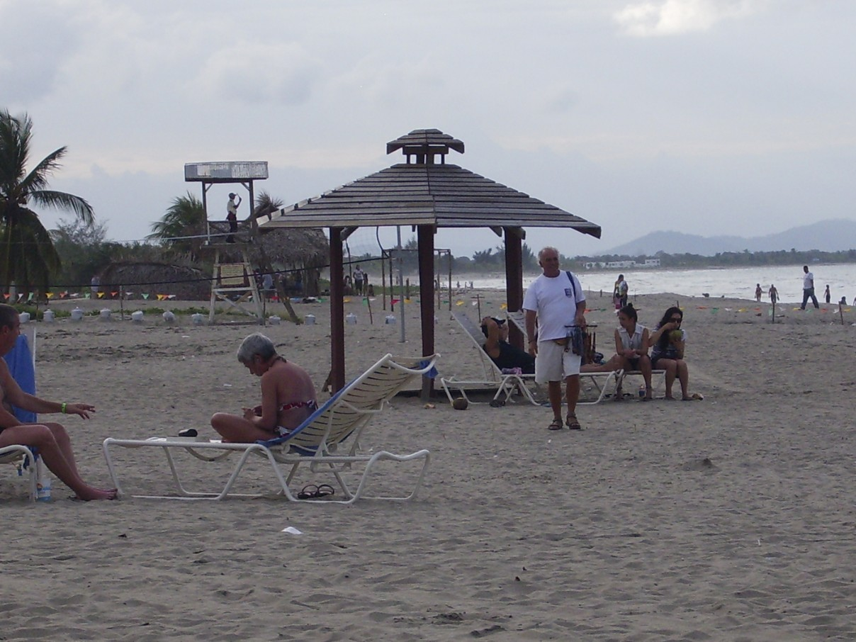 Playas blancas de Tela